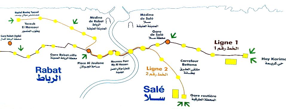 Map of the Rabat-Sale Tramway (Morocco)